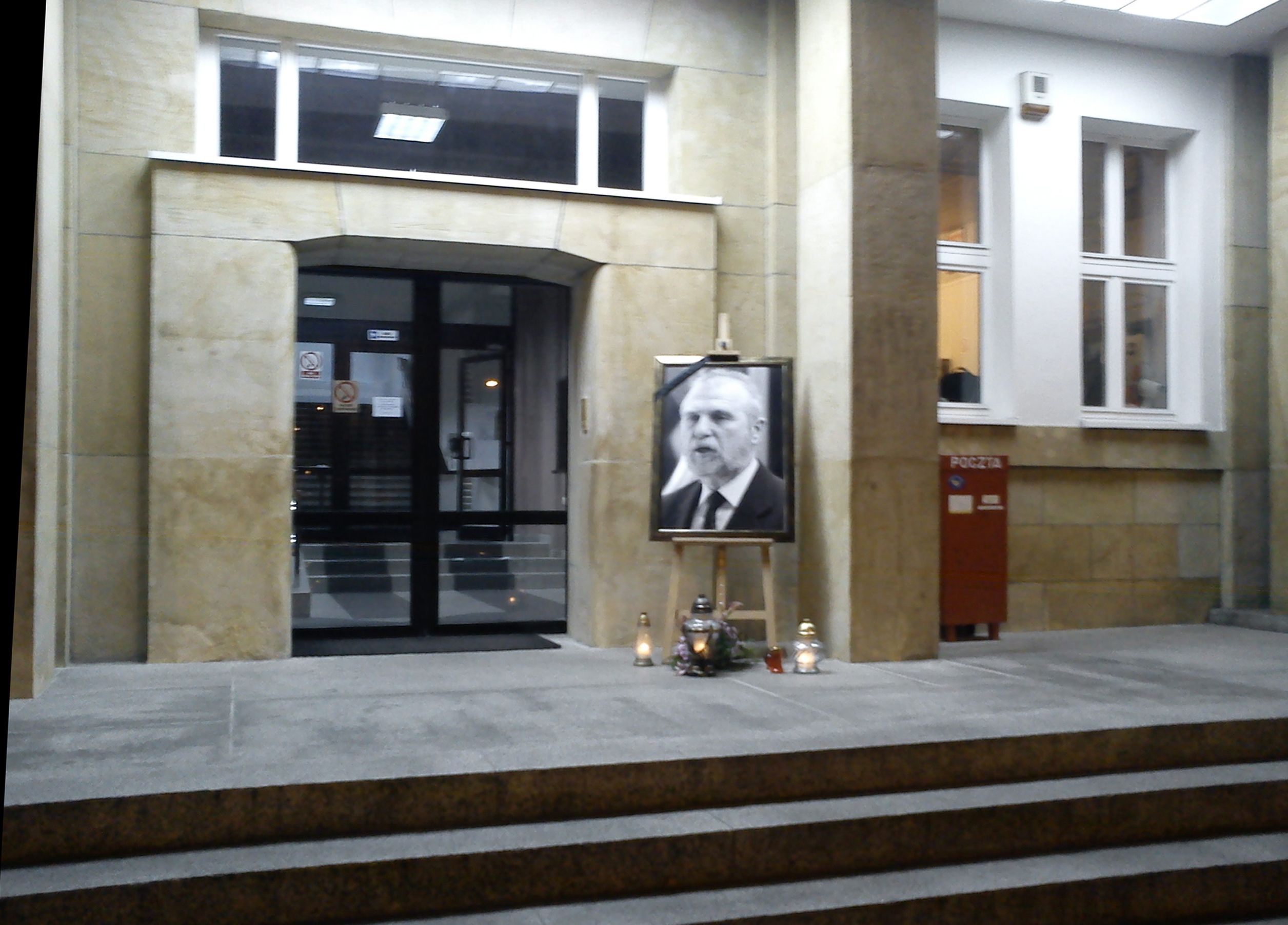 Kuyavian-Pomeranian Regional Assembly building in Toruń after Marek Wakarecy death